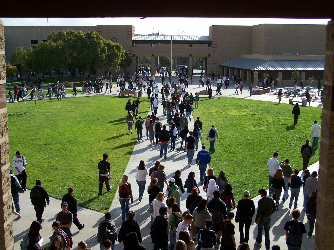 A view of student activity